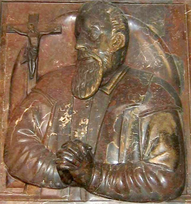 Sebastian Petrycy on his XVII century tomb effigy in Kraków image taken by user:Mathiasrex Maciej Szczepańczyk